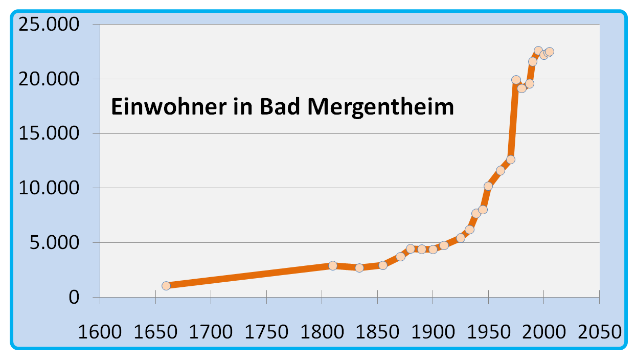 Demography of Bad Mergentheim, a old town in Germany.